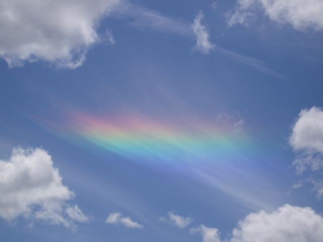 Circumhorizontal arc, photographed in Idaho, June 3, 2006, by Gavin Anderson. You are free to use this picture, as long as credit is given to the author. Hi-res versions and additional pictures available at